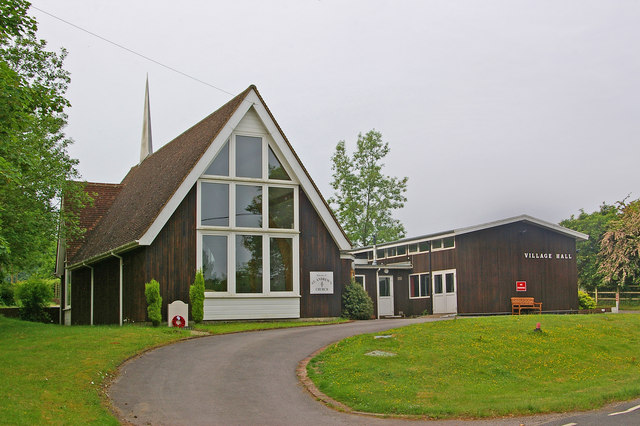 St Andrew's Church, Box Hill